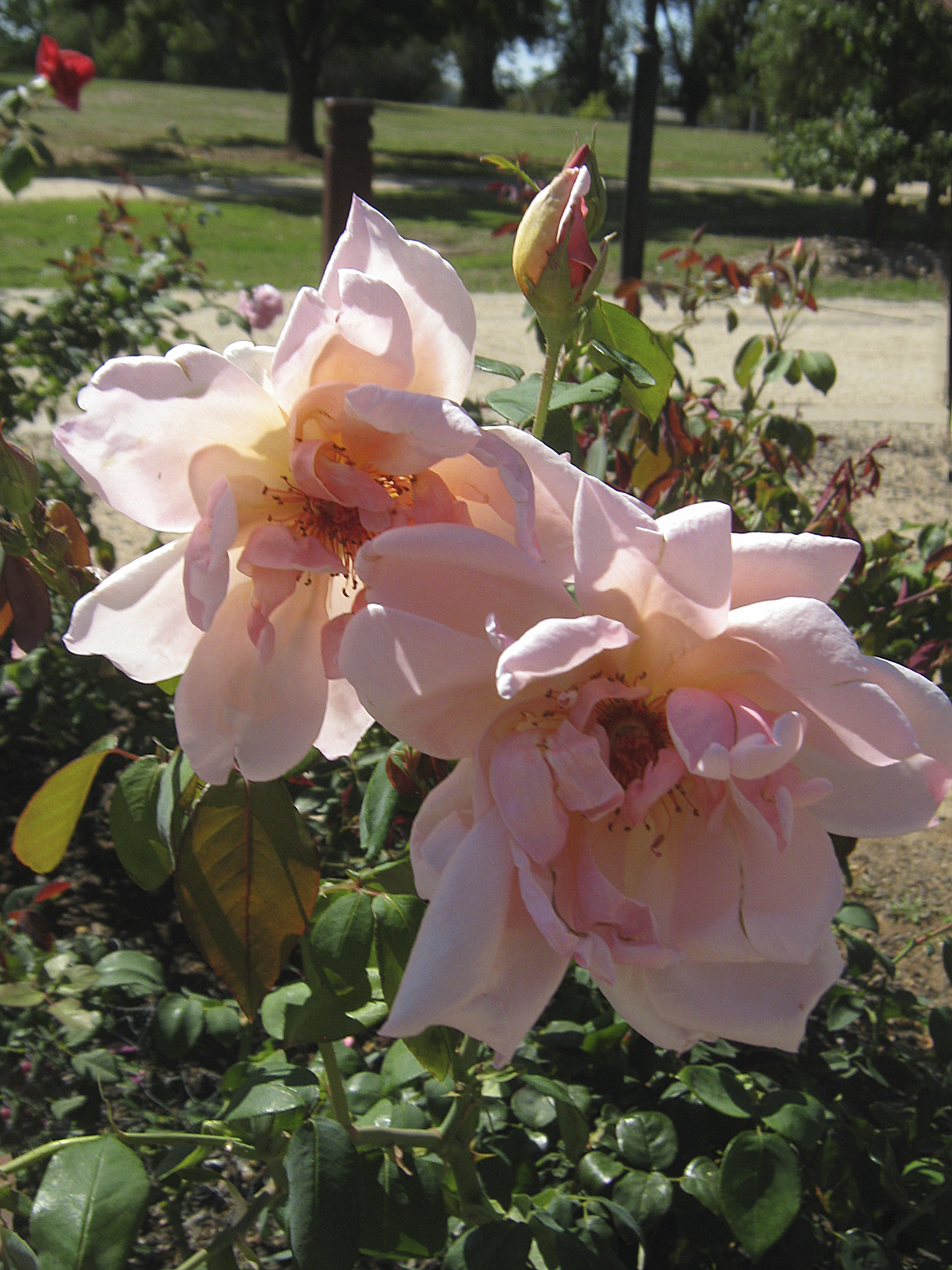 Rose 'Mrs A.R. Wadell' Hybrid Tea by Pernet-Ducher 1909